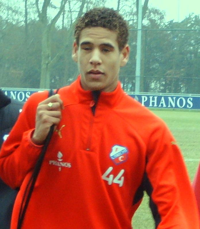 Ramon Leeuwin during a training